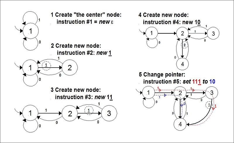 Pointer Machine Steps Example